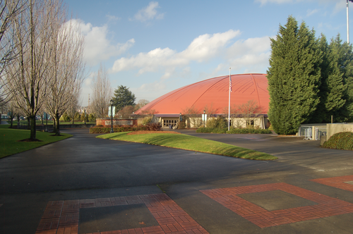 Chiles Center dome at the University of Portland, Oregon. Author: Ole J. Forsberg